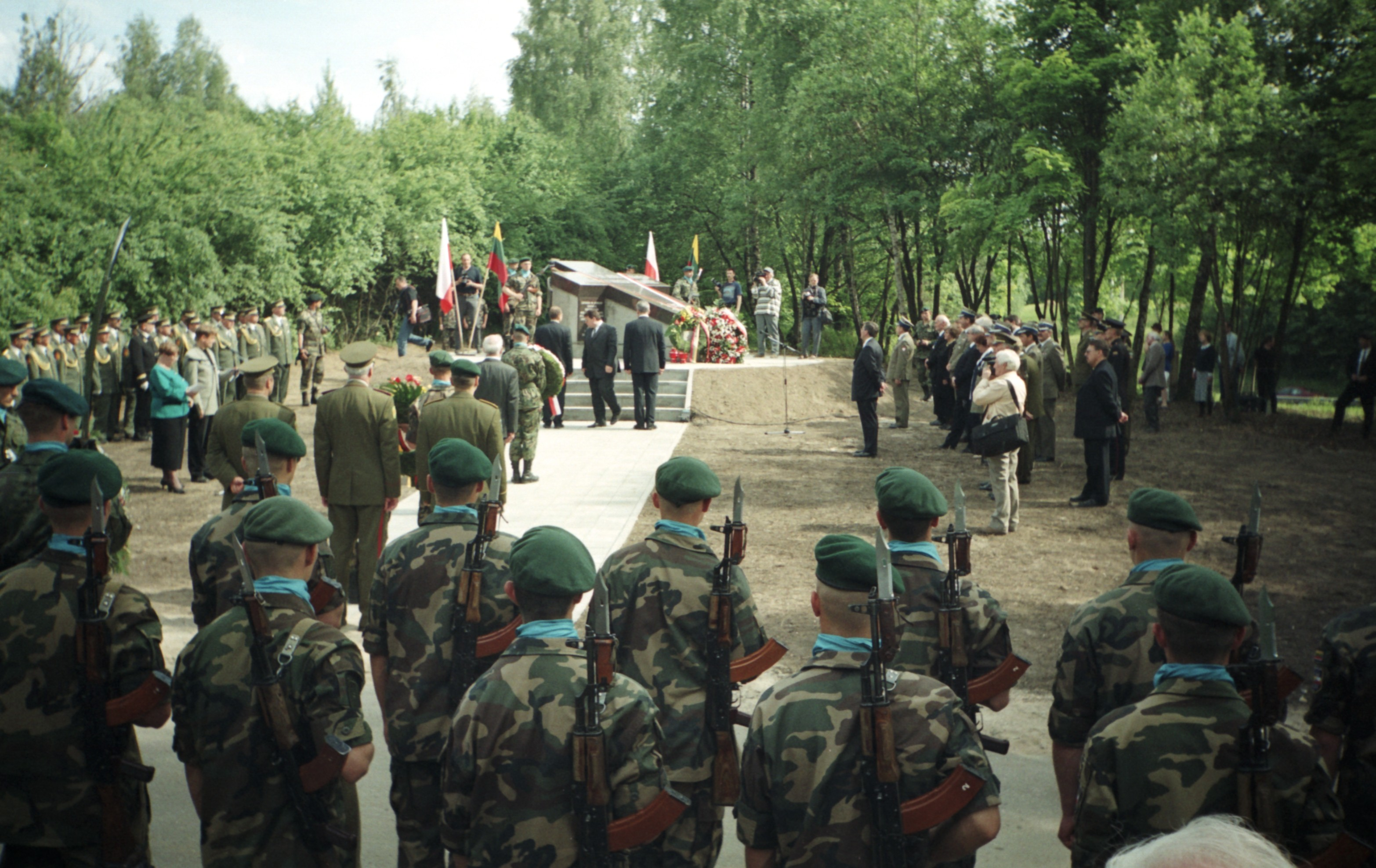 Opening of memorial of battle in Paneriai 1831-06-19 during November uprising, Vilnius, Lithuania